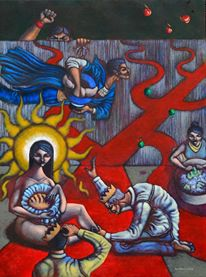 by Paul Hilario Acrylic on canvas 48" by 36" 2013